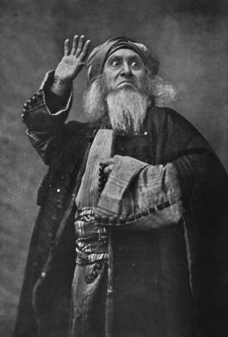 The Italian actor Ermete Novelli as Shylock in Shakespeare's "Merchant of Venice".